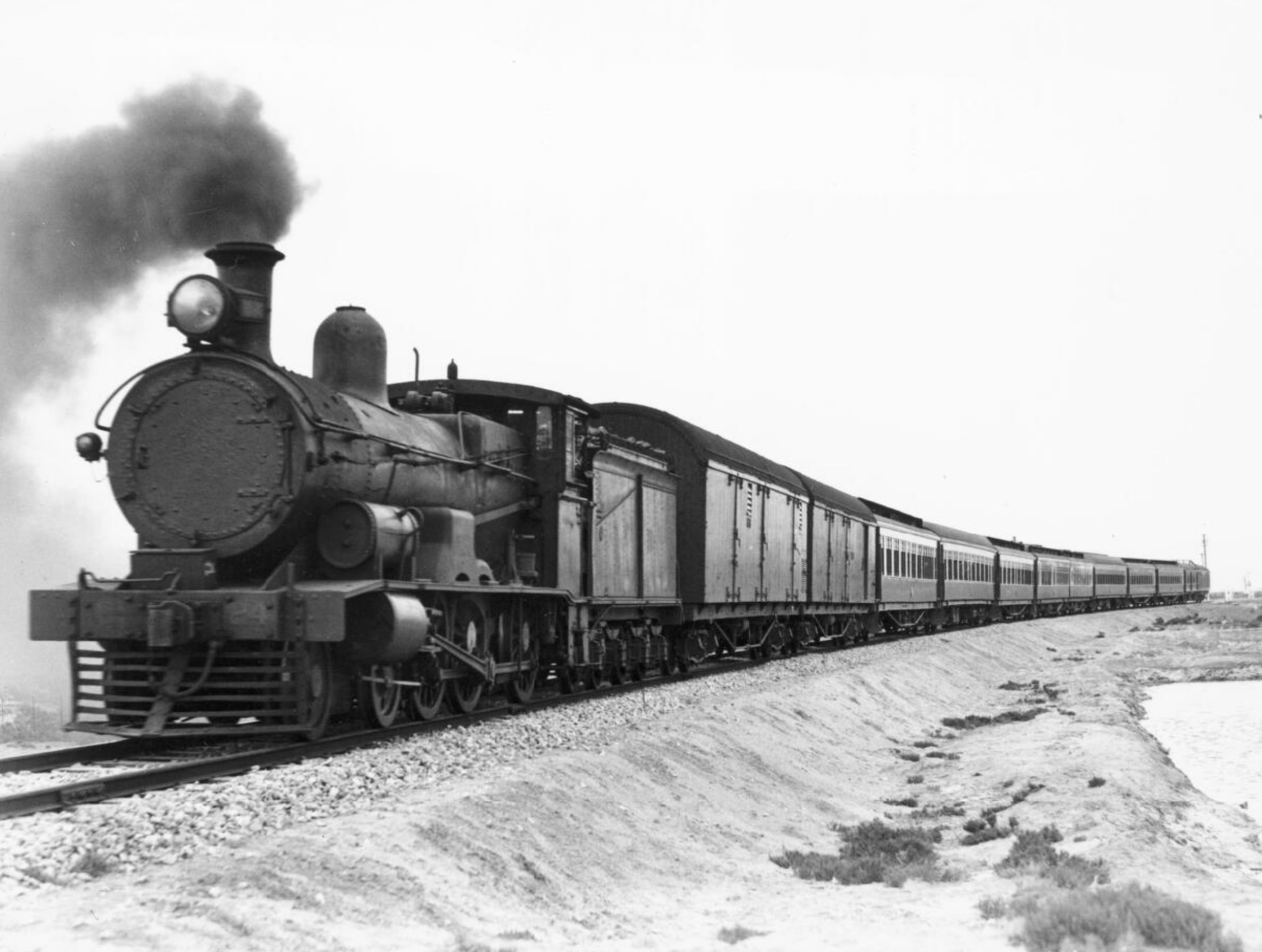 "Trans-Australian" train westbound from Port Pirie Junction to Port Augusta and on to Kalgoorlie, Western Australia. The locomotive is Ga class number 24.